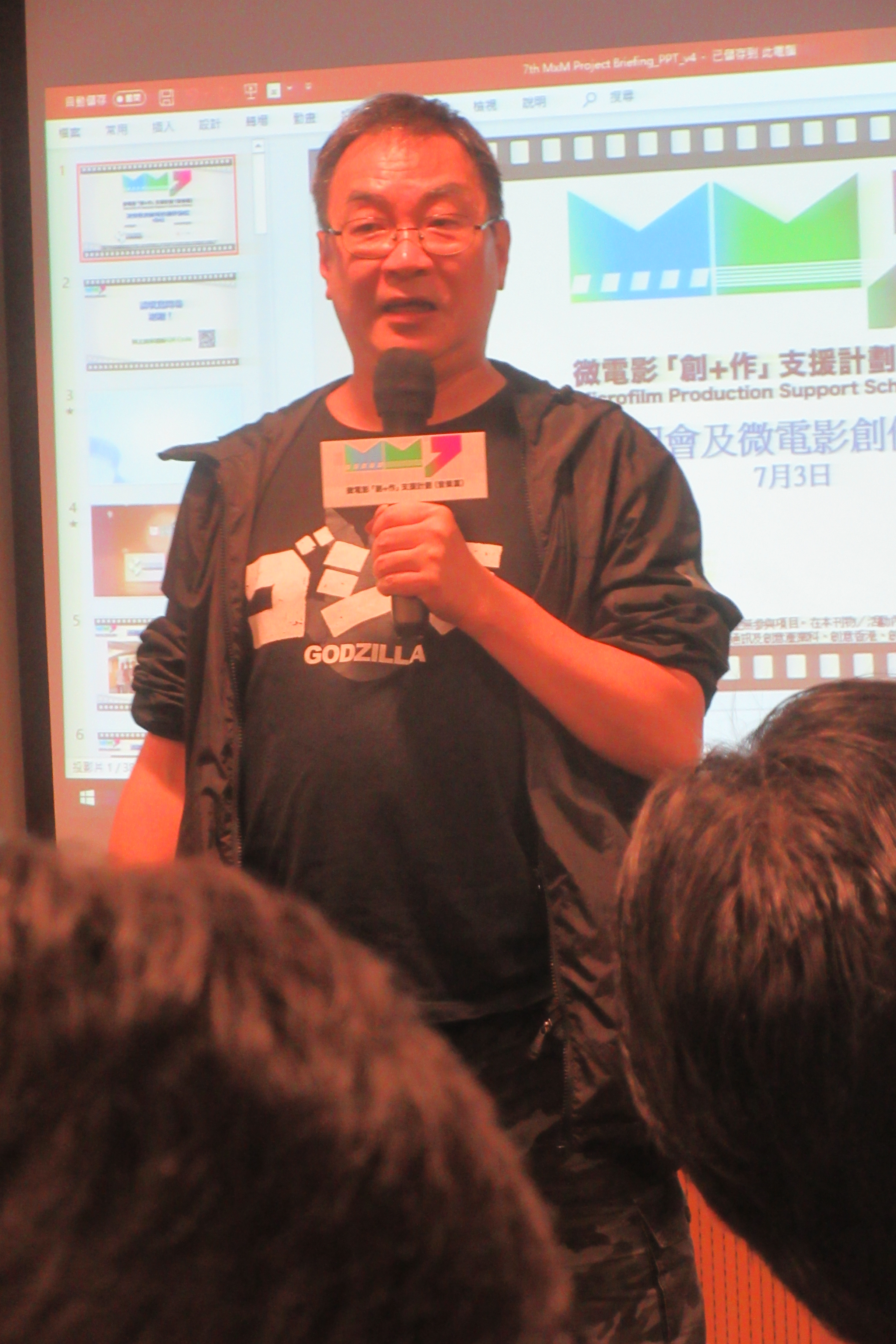 HK QB 鰂魚涌 Quarry Bay talk Microfilm-music HKAIM Hong Kong Association of Interactive Marketing 香港互動市務商會 HKFY Group 香港青年協會大廈 Hong Kong Federation of Youth Groups in July 2019 林紀陶 Lam Kee To